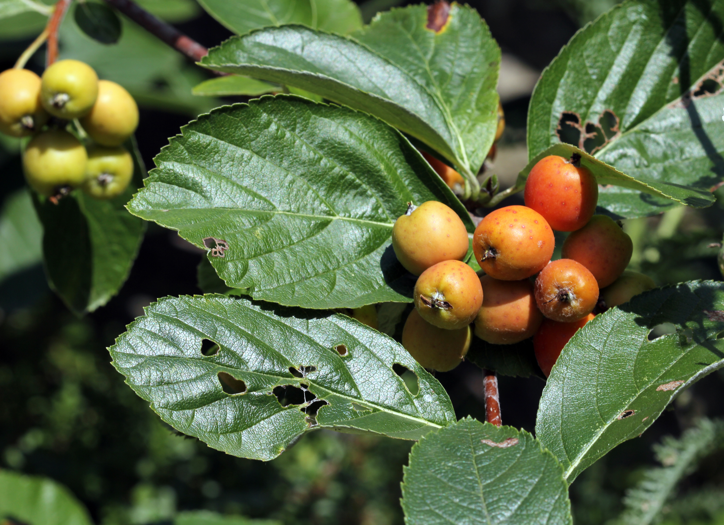 Tree Sorbus sudetica, (Sorbus sudetica), the Botanical Gardens of Charles University, Prague, Czech Republic